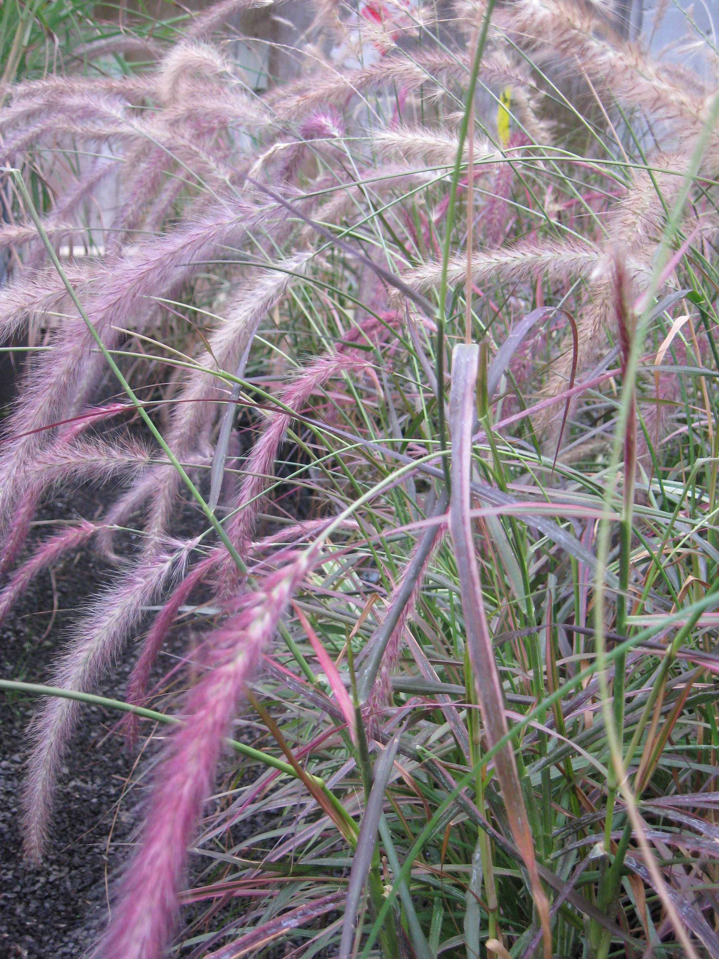 Pennisetum setaceum